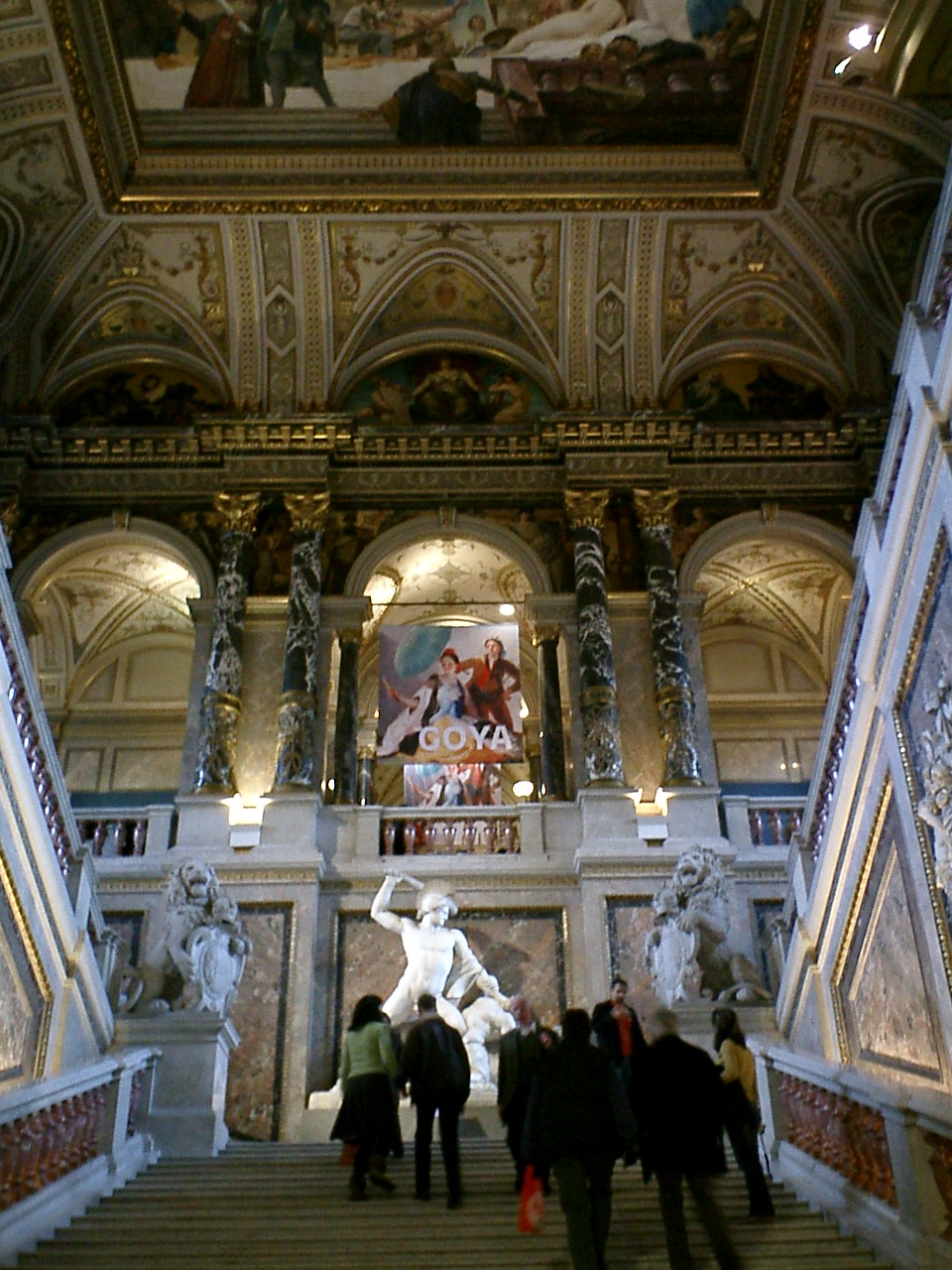 Description: Grand staircase in the Kunsthistorisches Museum in Vienna. Stiegenhaus im Kunsthistorischen Museum in Wien. Fall 2005. Source: Self-made, I release it into the public domain.